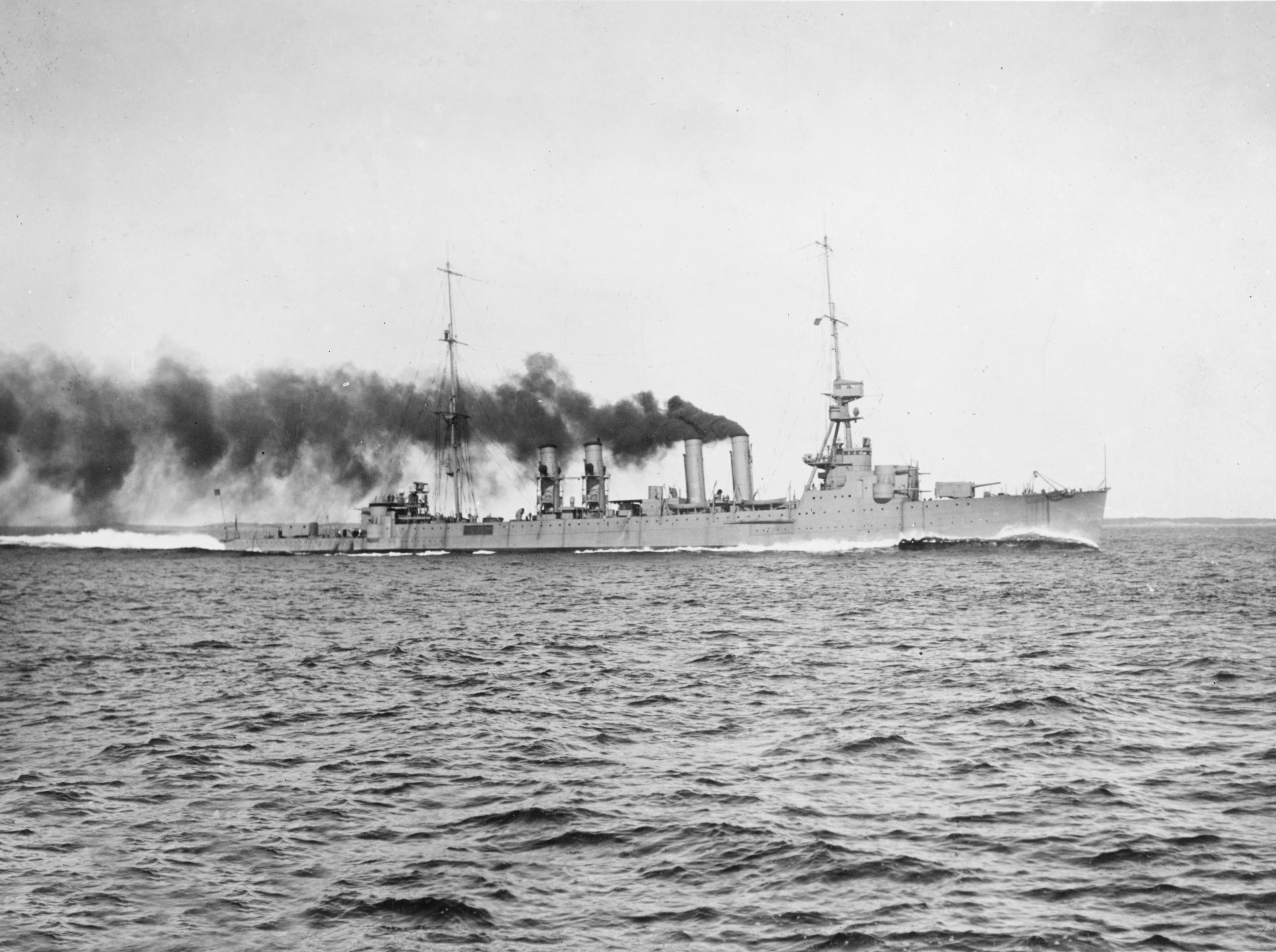 The U.S. Navy light cruiser USS Richmond (CL-9) making 32.5 knots off Philadelphia, Pennsylvania (USA), during trials on 11 May 1923.